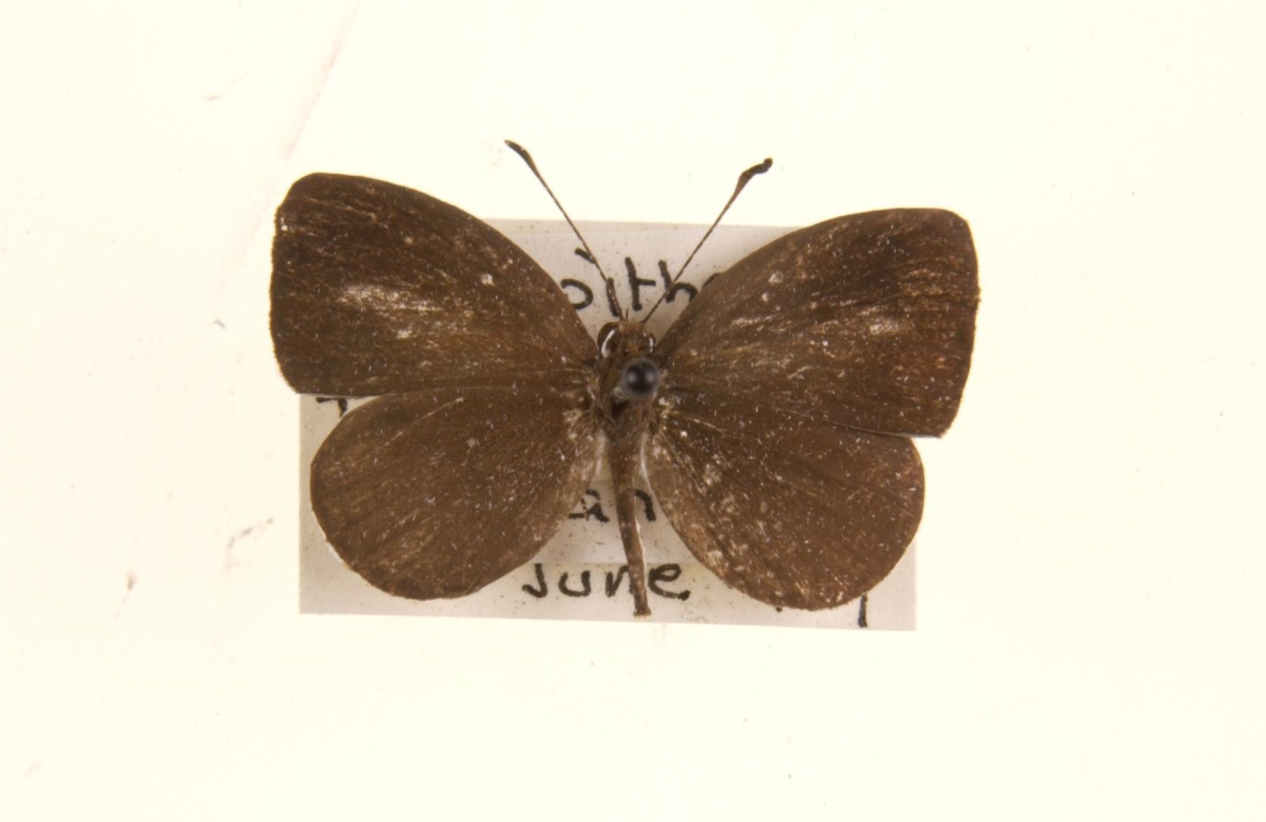 Neopithecops zalmora, Malaya